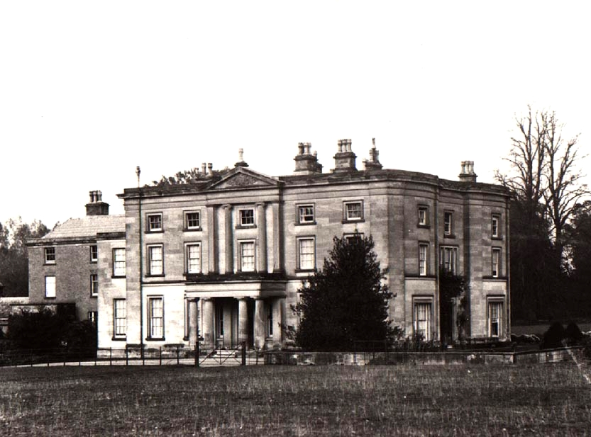 Appleby Hall in Appleby Parva built in Derbyshire/Pictured in Leicestershire. home to George Moore. The full version had the name of the hall and the year which has been cropped off.